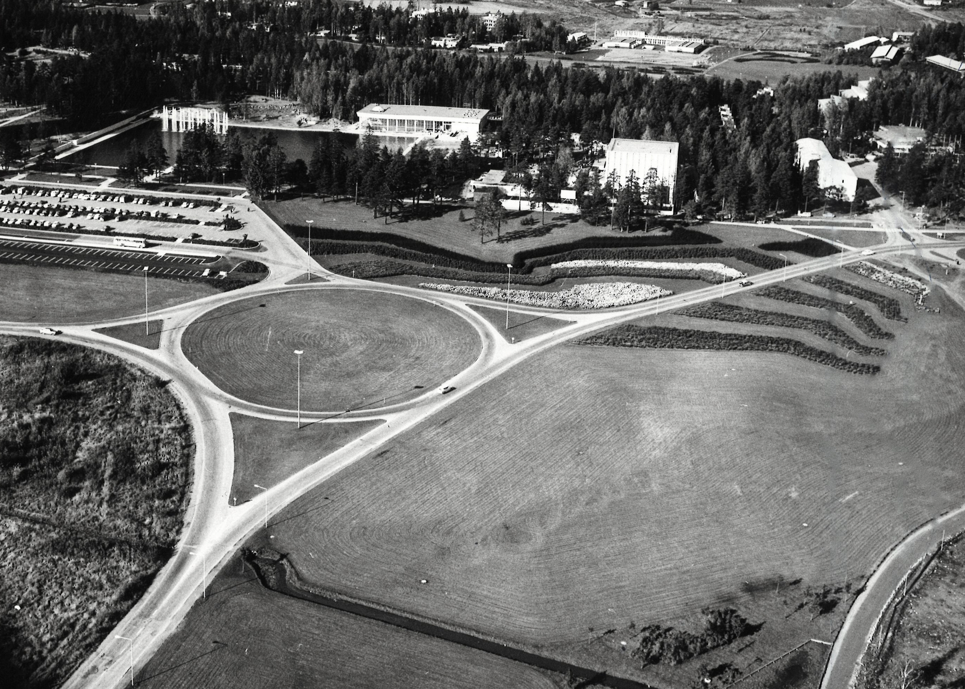 Aerial photograph of Tapiola, Espoo.